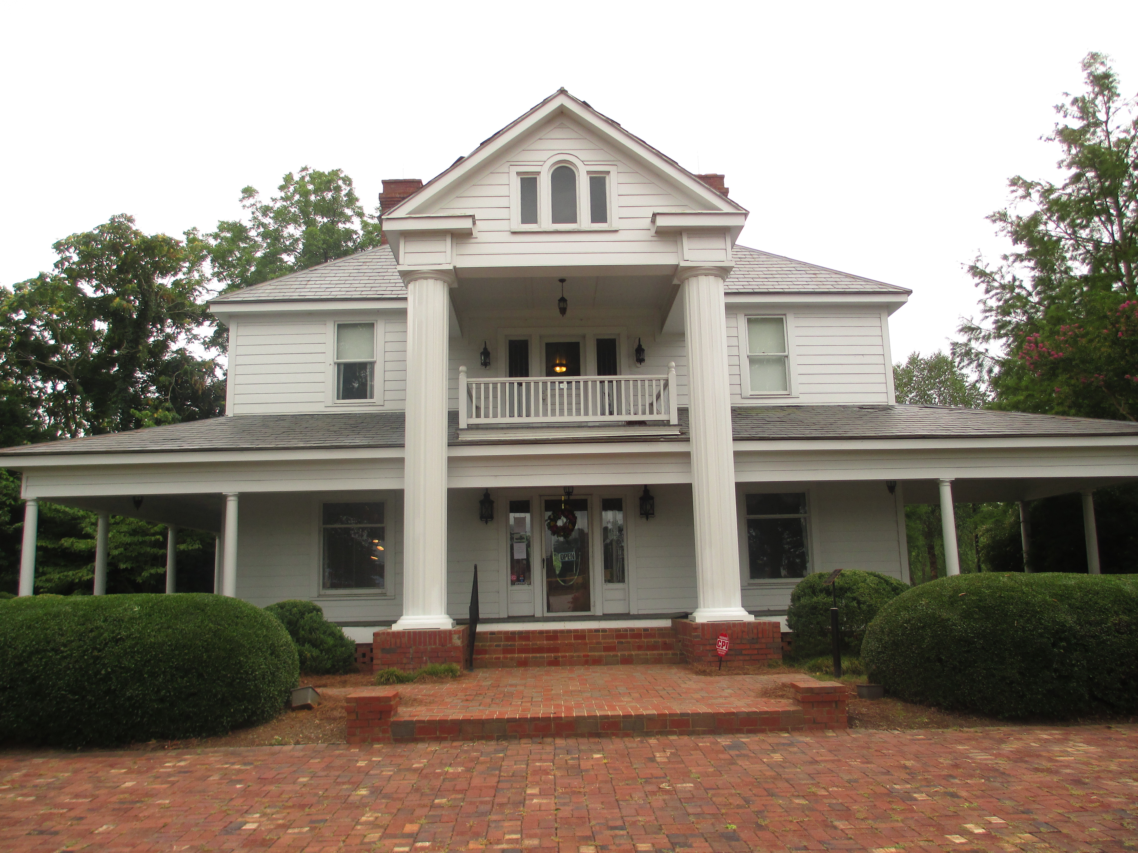 I took photo with Canon camera in Wingate, NC.